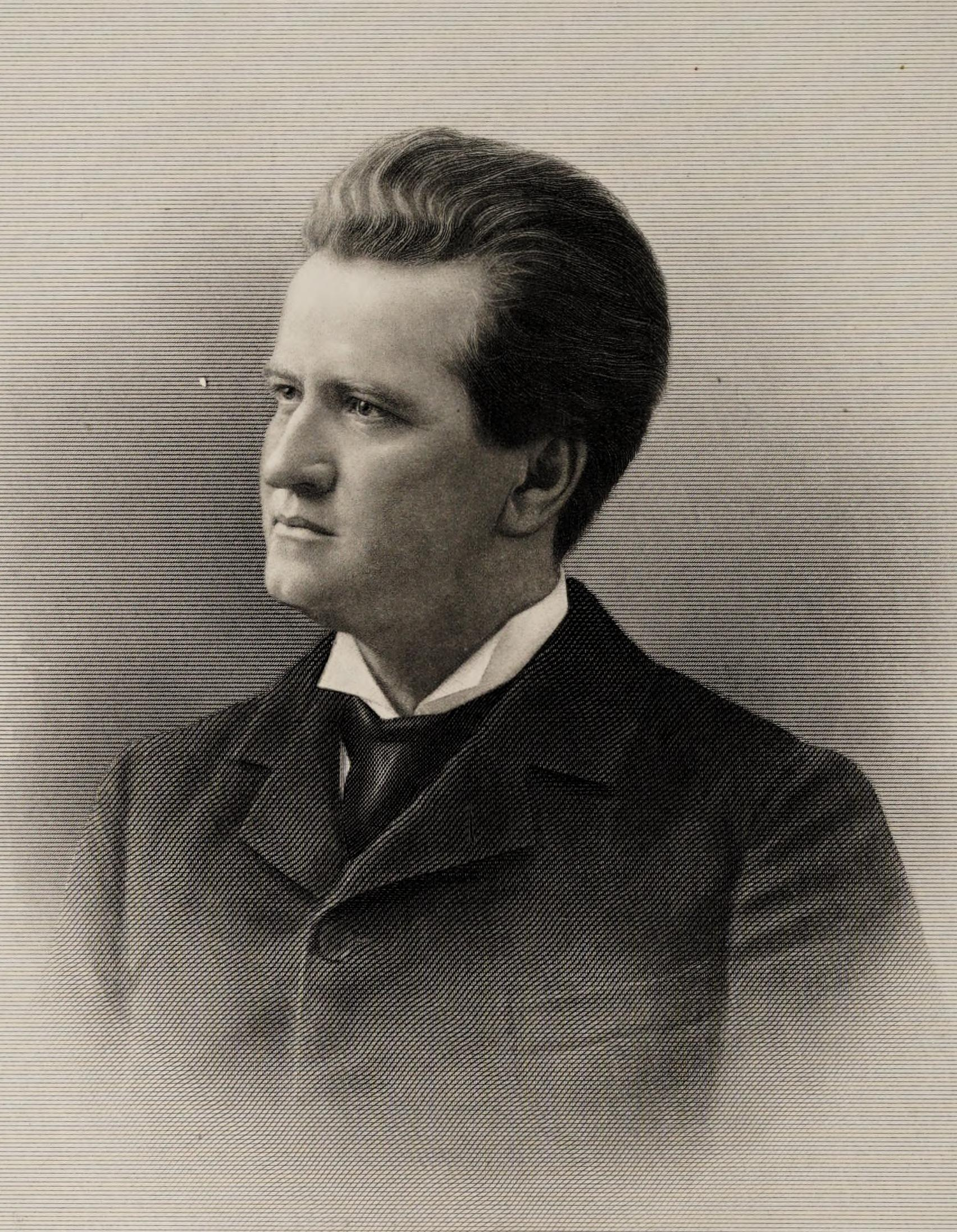 Robert La Follette circa 1898, Wisconsin Congressman and Governor, and United States Senator